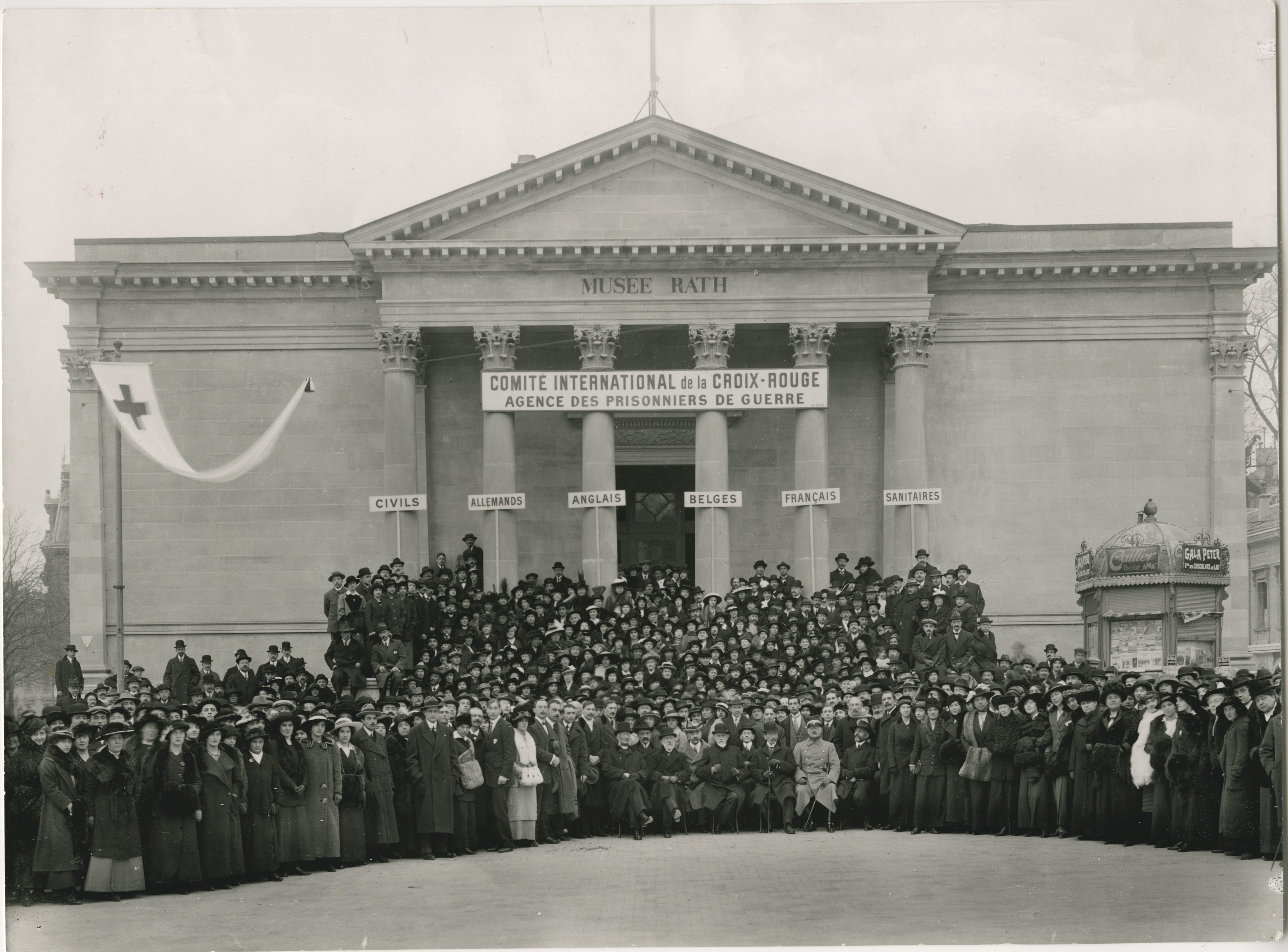 World War I. Rath Museum. International Prisoners of War Agency's staff. 1200 volunteers.